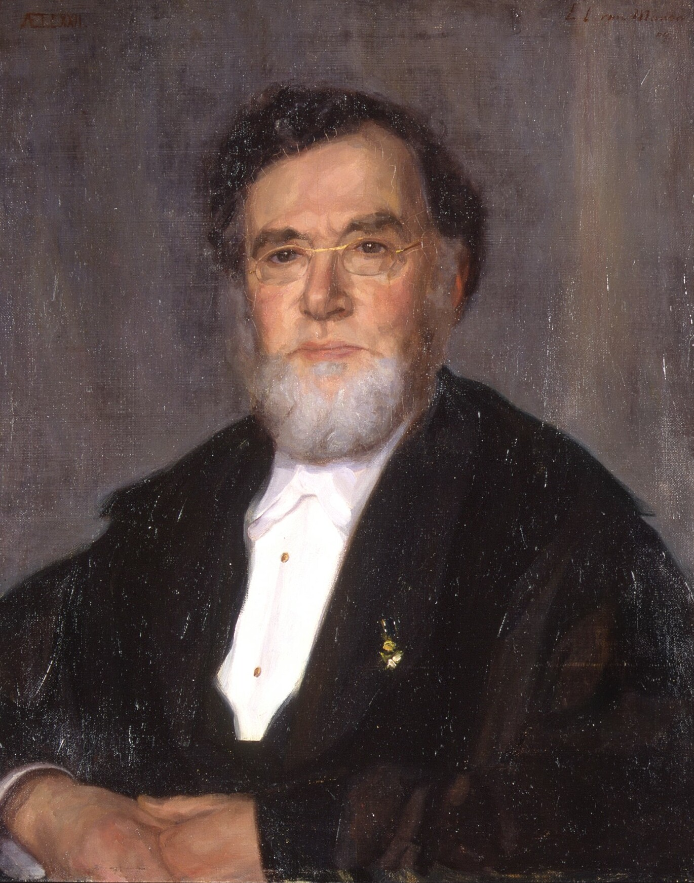 Henricus Oort (1836-1927), professor (Hebrew language) at Leiden University